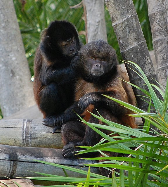 Crested capuchin (Sapajus robustus) grooming in Palm Beach Zoo.